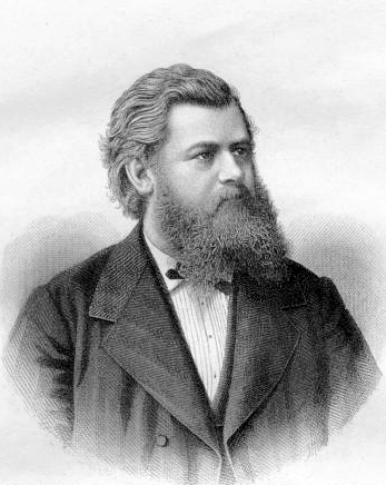 Alsatian composer Victor Nessler (1841-1890) by August Weger (1823-1892).